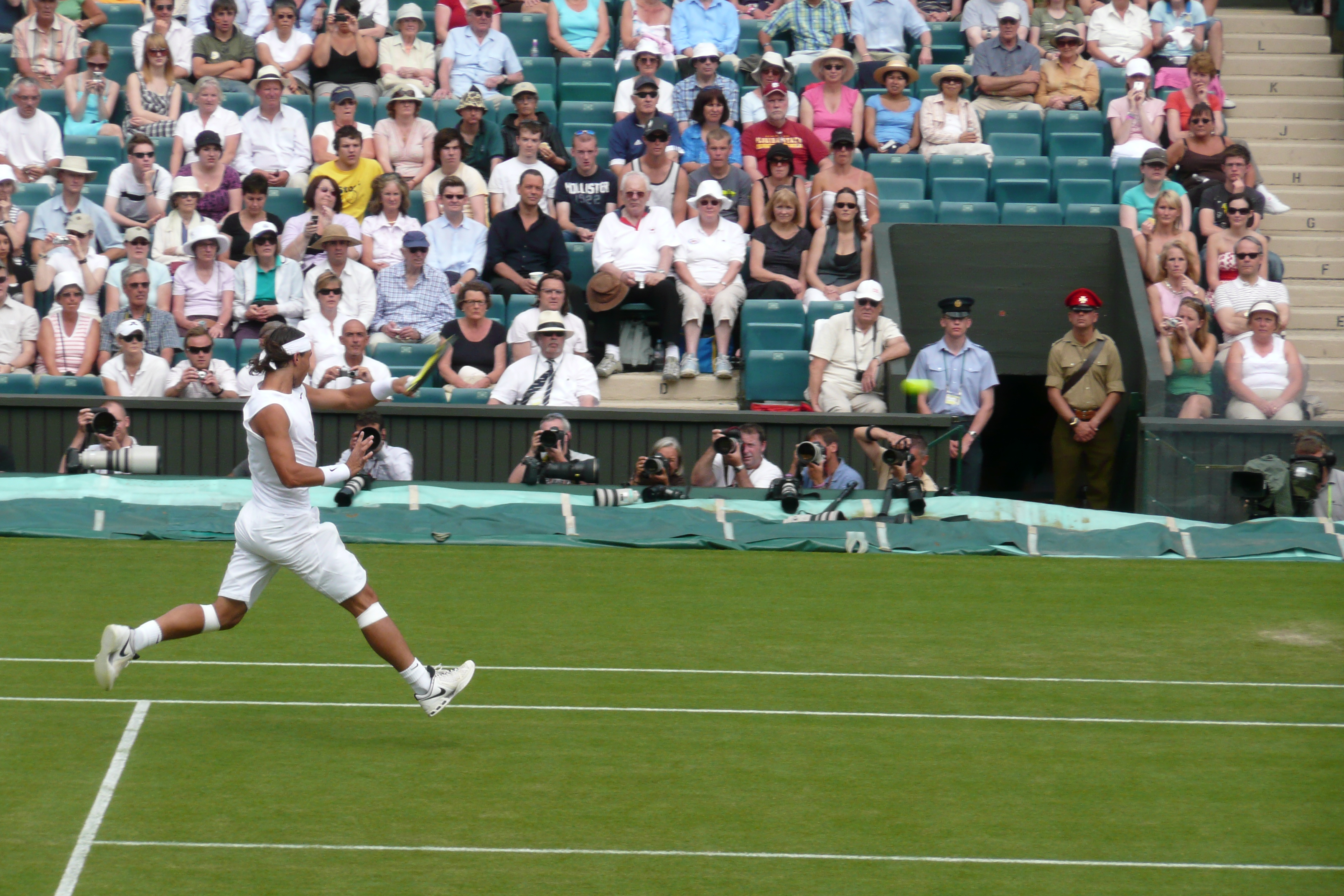 Rafael Nadal in action against Andreas Beck in the first round of the 2008 Wimbledon Championships.